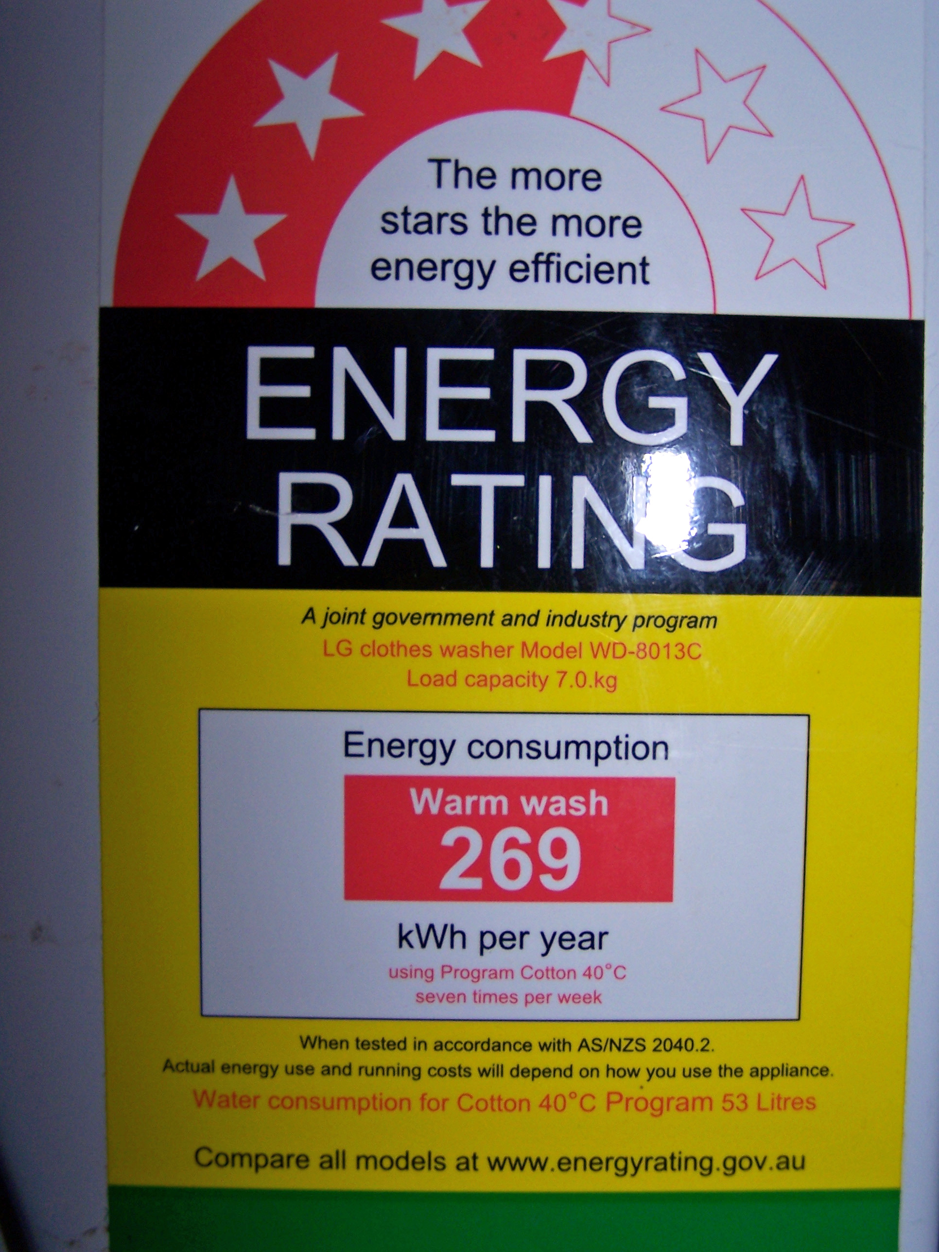 Energy rating label as used on electrical goods in Australia